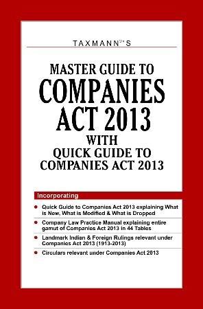 wikipidia